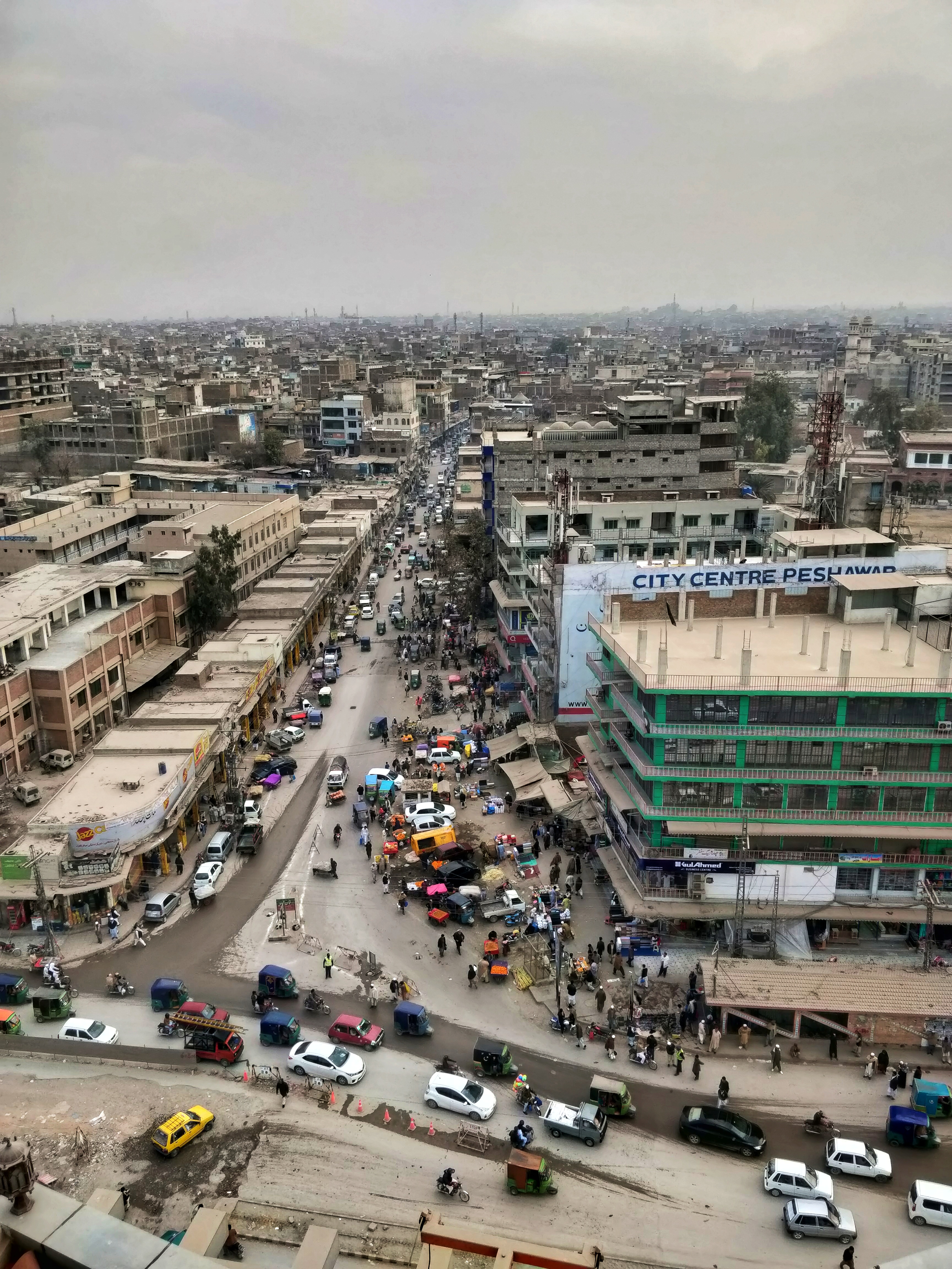 This is the heart of peshawar city. One of the rarest sights when this place is not busy and theres room to walk freely. This is place is the backbone of trade in Peshawar with khyber bazar (Khyber market) right behind it and Killa Balisar (Balisar Fort) on its side.